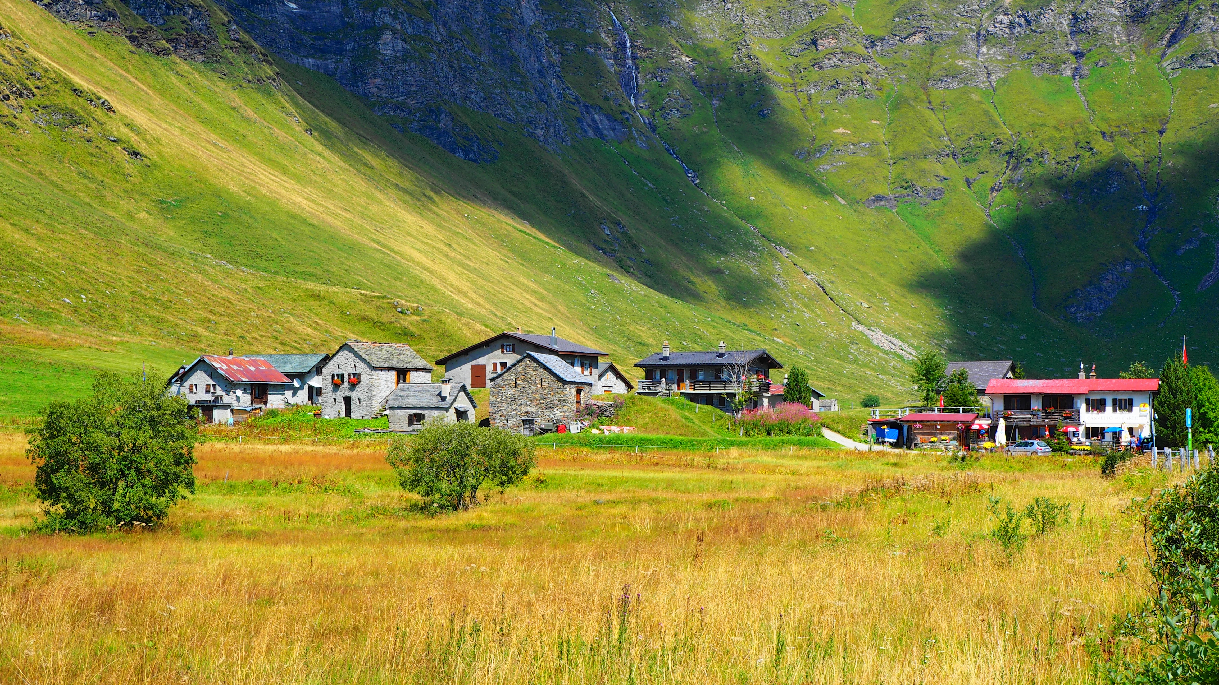 Cadagno di Fuori in Val Piora, Switzerland